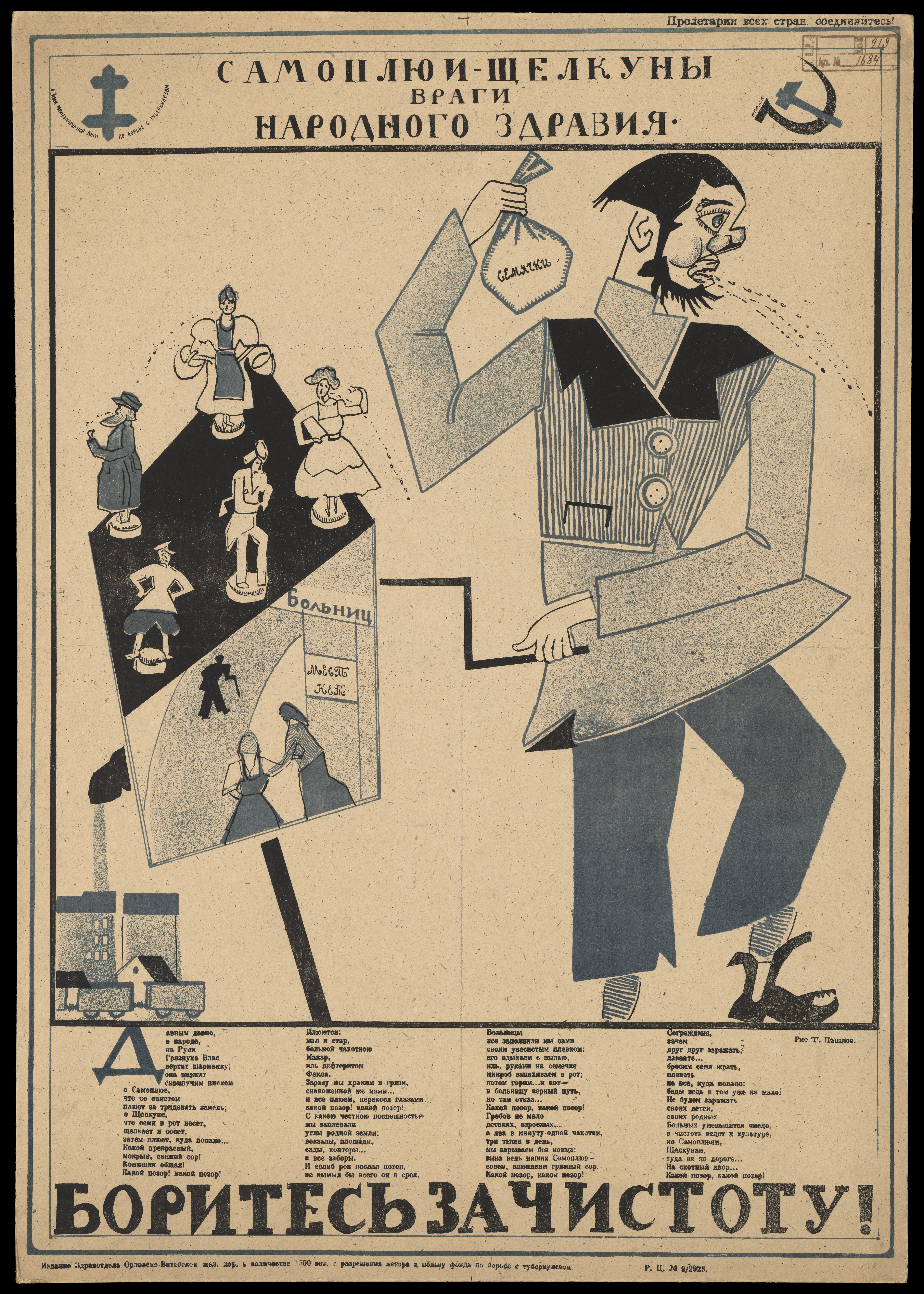 Dirty Vlas the organ-grinder demonstrating that people who spit or crack sunflower-seeds spread tuberculosis and are therefore enemies of the people's health. Colour lithograph by T. Pashkov, 192-. Iconographic Collections Keywords: cat no. 545730i; ic; T. Pashkov